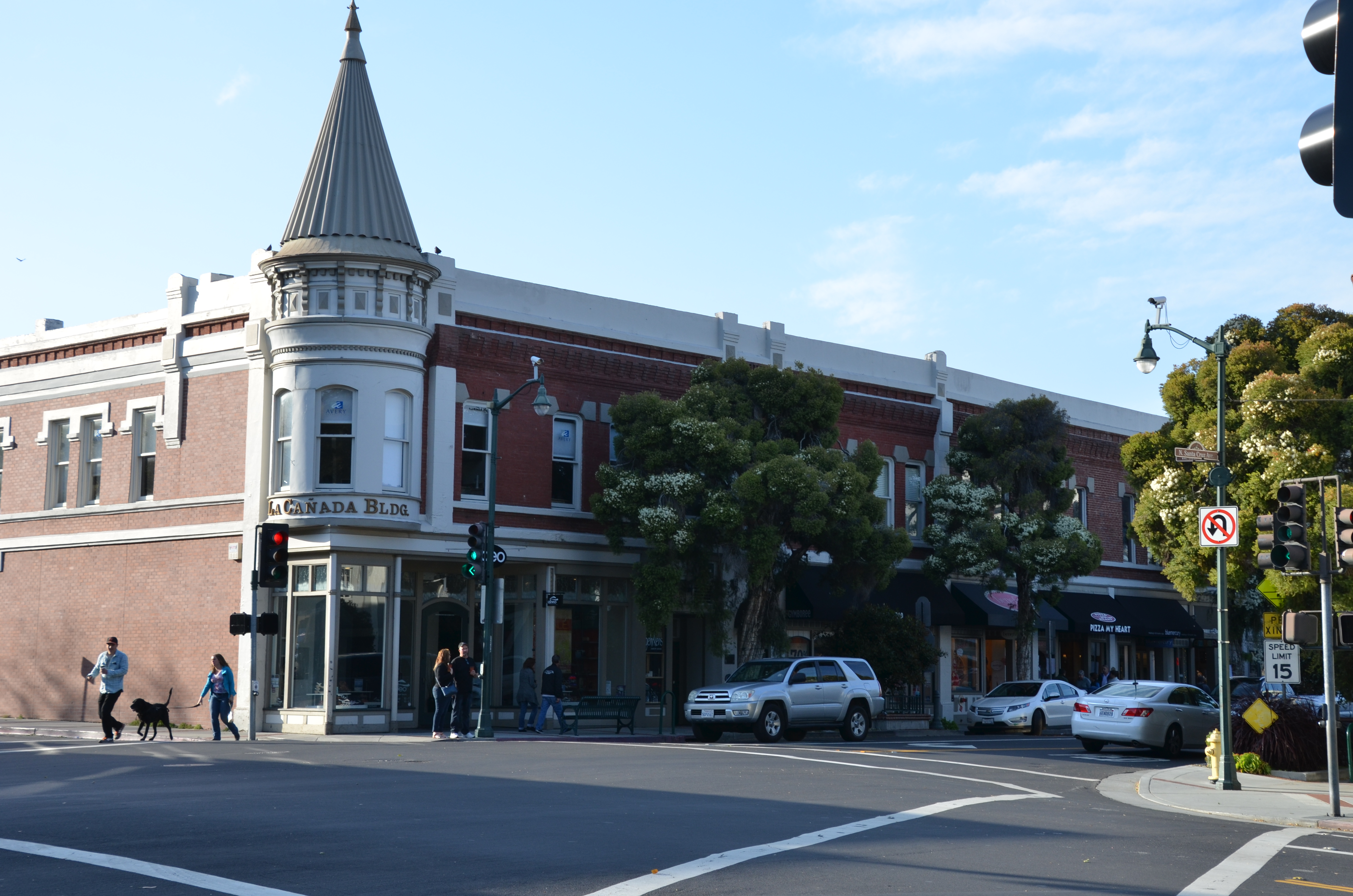 La Cañada Building, Los Gatos. Year 2016